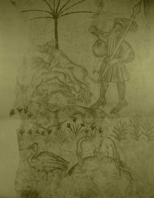 Menat fresco